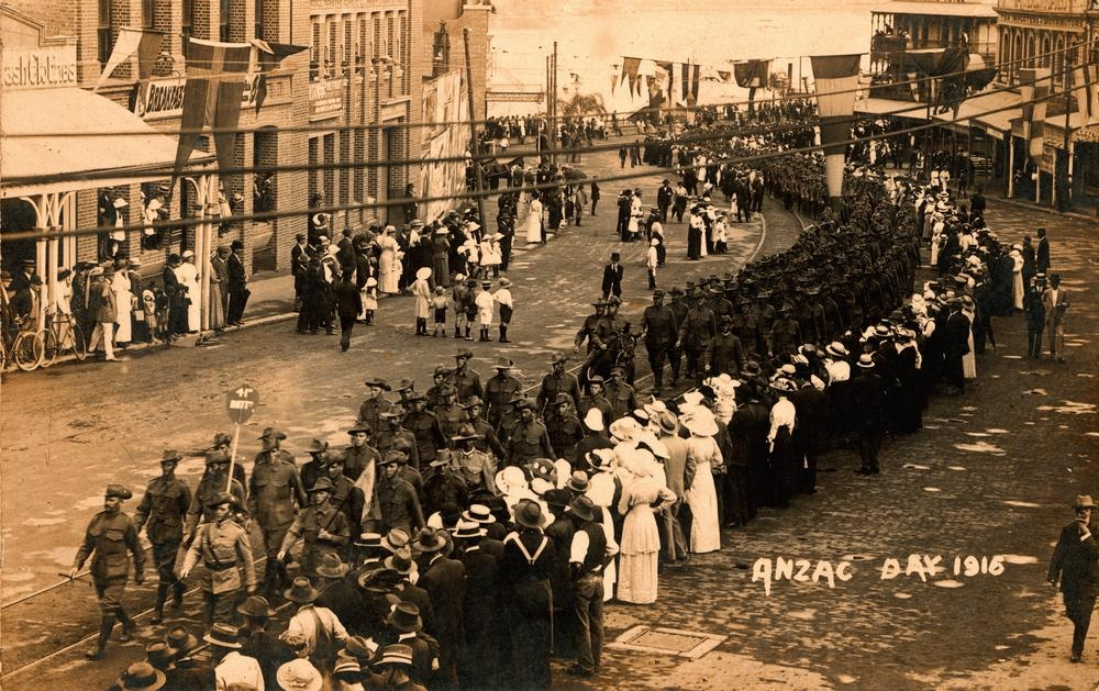 Photographer: Unidentified Location: Brisbane, Queensland Description: Men, women and children line the streets to watch the procession of the 41st Battalion through Brisbane on Anzac Day, 1916. About this photograph Information about State Library of Queensland’s collection: .au/